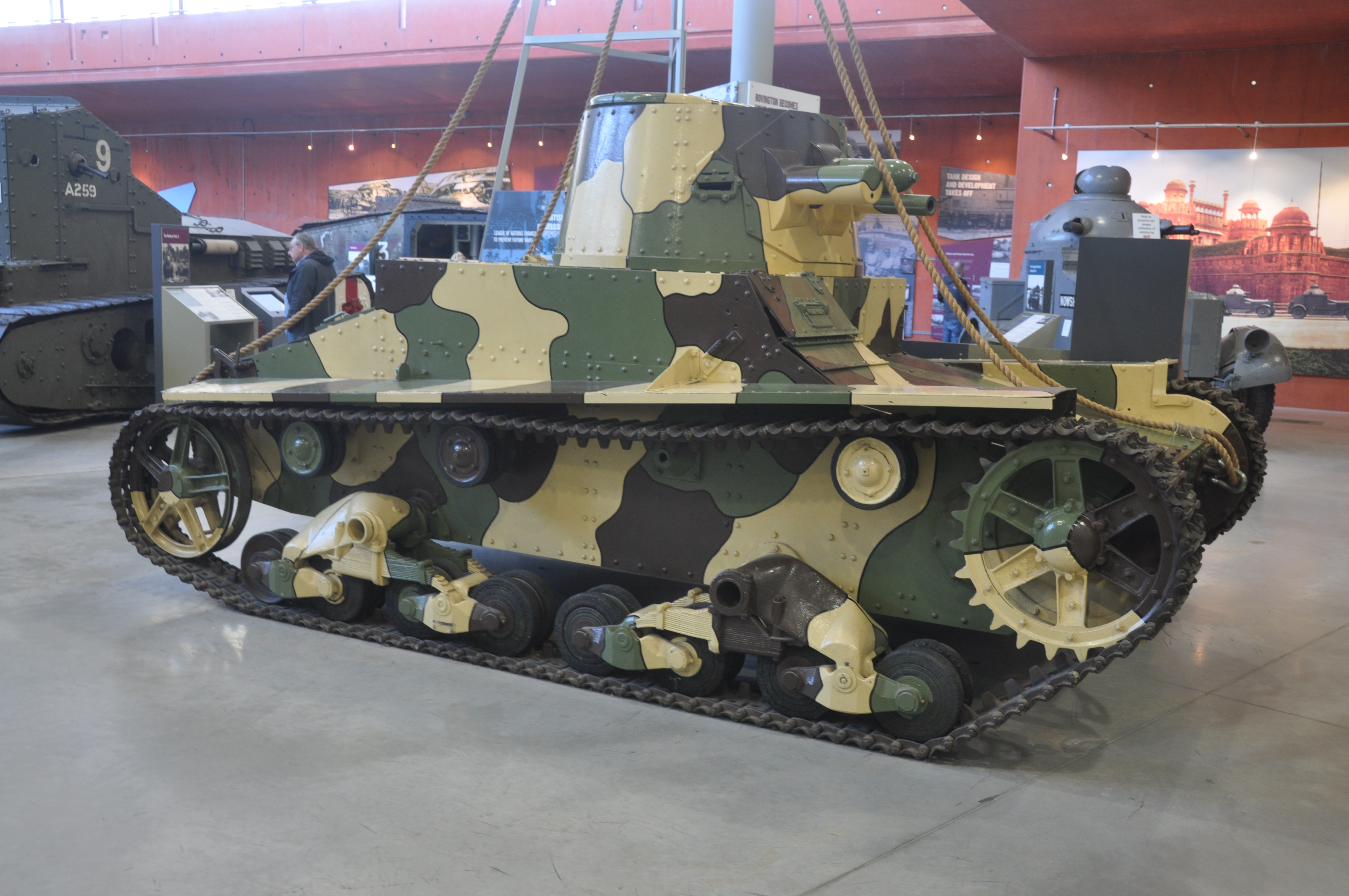 The Tank Museum